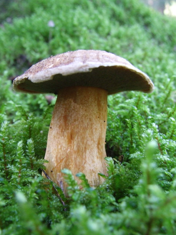 Suillus variegatus. Karmėlava forest, Lithuania.